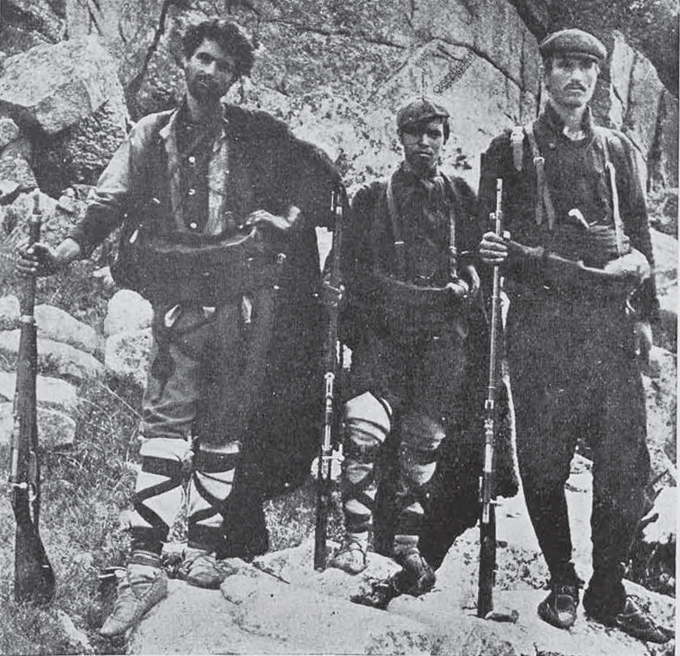 Bulgarian revolutionaries Kocho Molerov, Petar Georgiev and Lazar Tomov